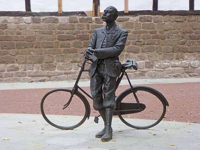 Statue of Sir Edward Elgar in a corner of Hereford Cathedral Green. This statue commemorates the fact that the composer lived in Hereford from 1904 to 1911.